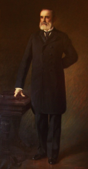 Portrait of Salt Lake City's first non-Mormon mayor, George M. Scott, taken by me from the gallery of the Salt Lake City and County Building.